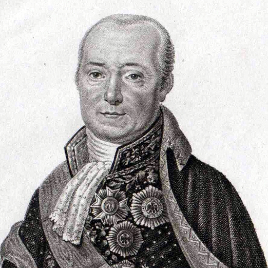 Haugwitz, Christian Graf von, 11.6.1752 - 9.2.1832, Prussian politician, portrait, wood engraving after engraving by P. Taffaert